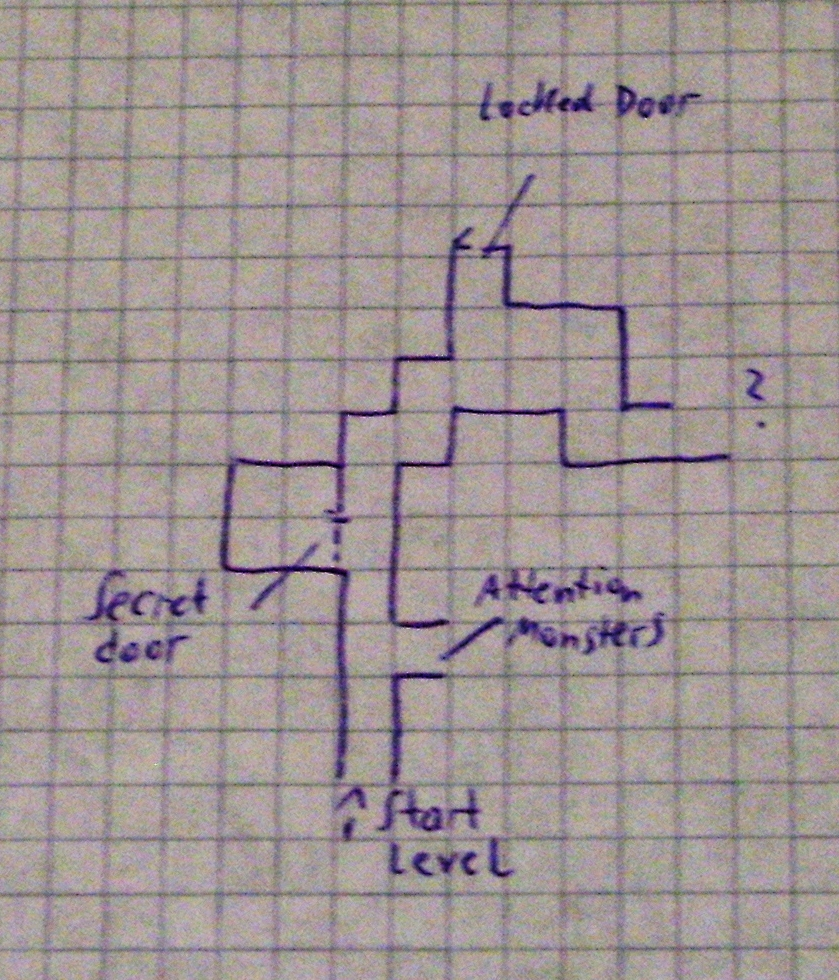 manual mapping of a fictitious computer role playing game with no automap